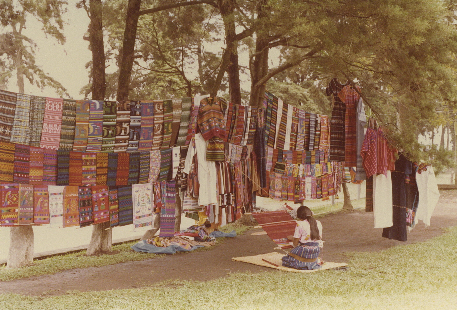 Traditional highland weavings, and woman using a backstrap loom, Guatemala.